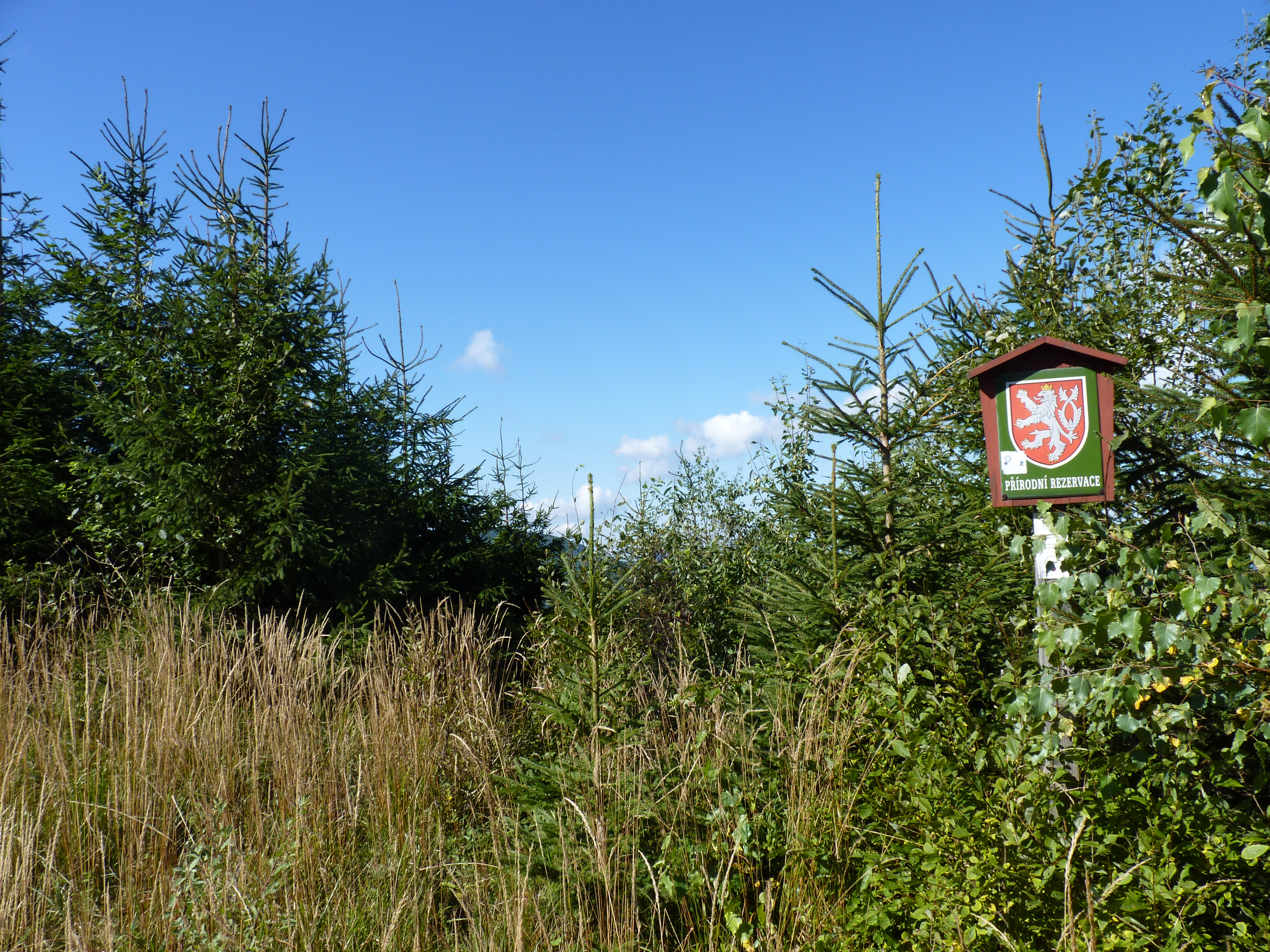 Nature reserve Travný, Moravian-Silesian Beskids